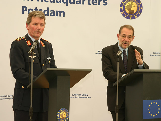 Javier Solana visits the EU OHQ in Potsdam